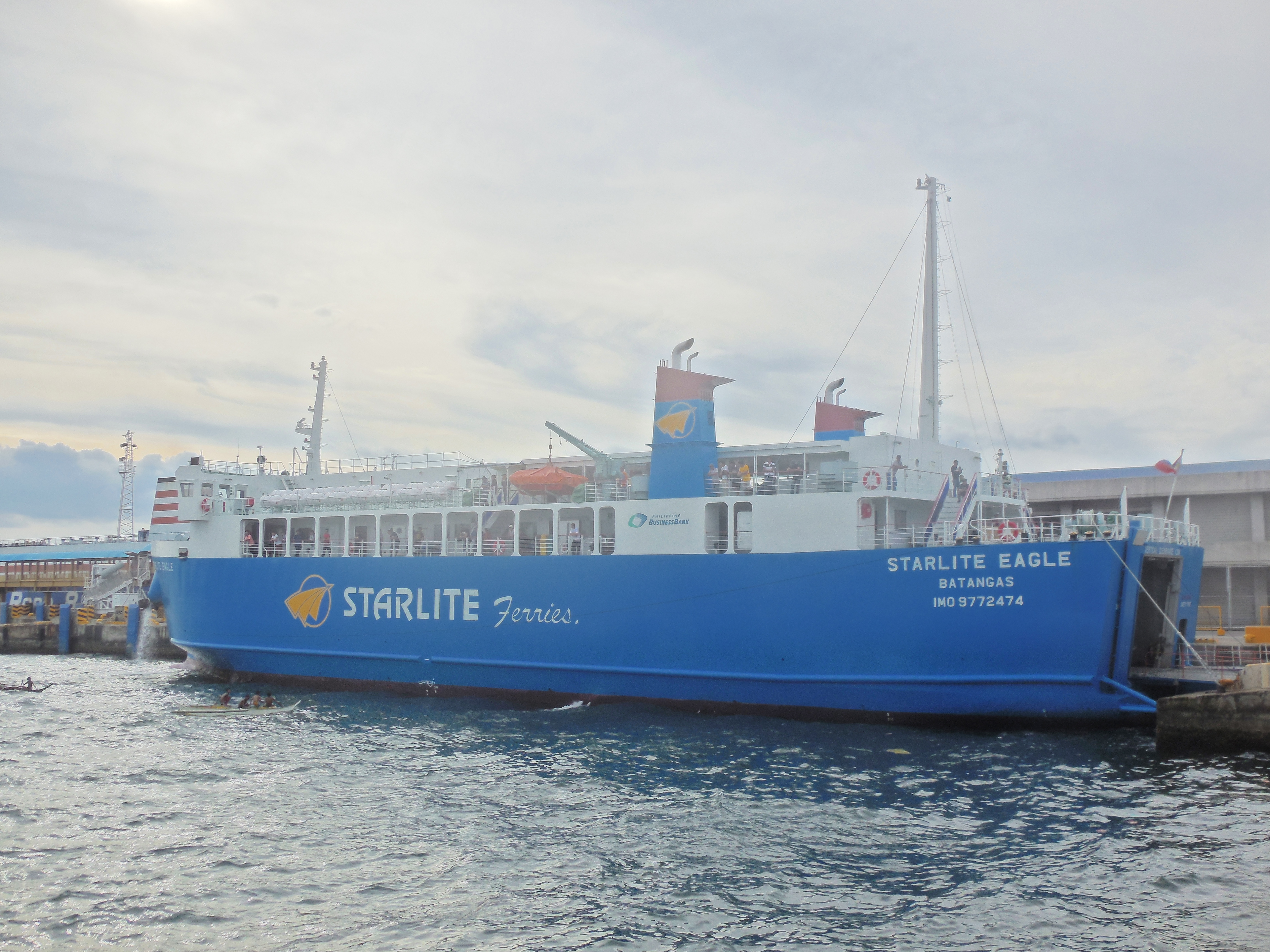 MV Starlite Eagle, a roll-on, roll-off ferry owned and operated by Starlite Ferries, a Philippine interisland ferry company. Taken at Sta. Clara Port, Batangas City.